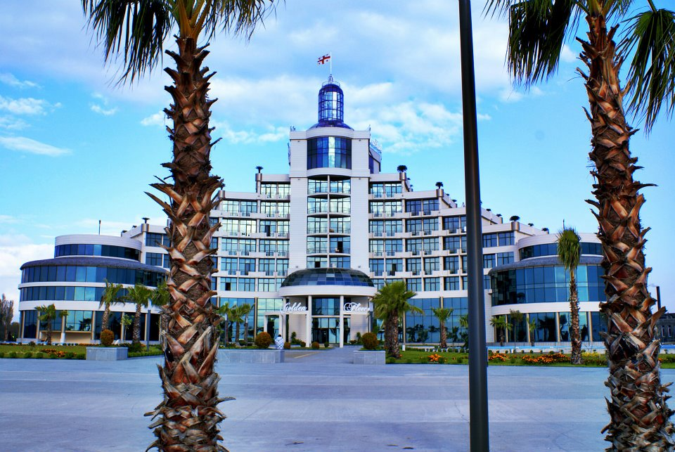 Anaklia, Georgia